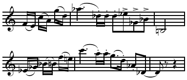 Initial thematic statement, or compositional projection, of the tone row, mm. 2-4, cyclically permuted to begin on E♭ in mm. 7-9 (Perle 1996, p.20).